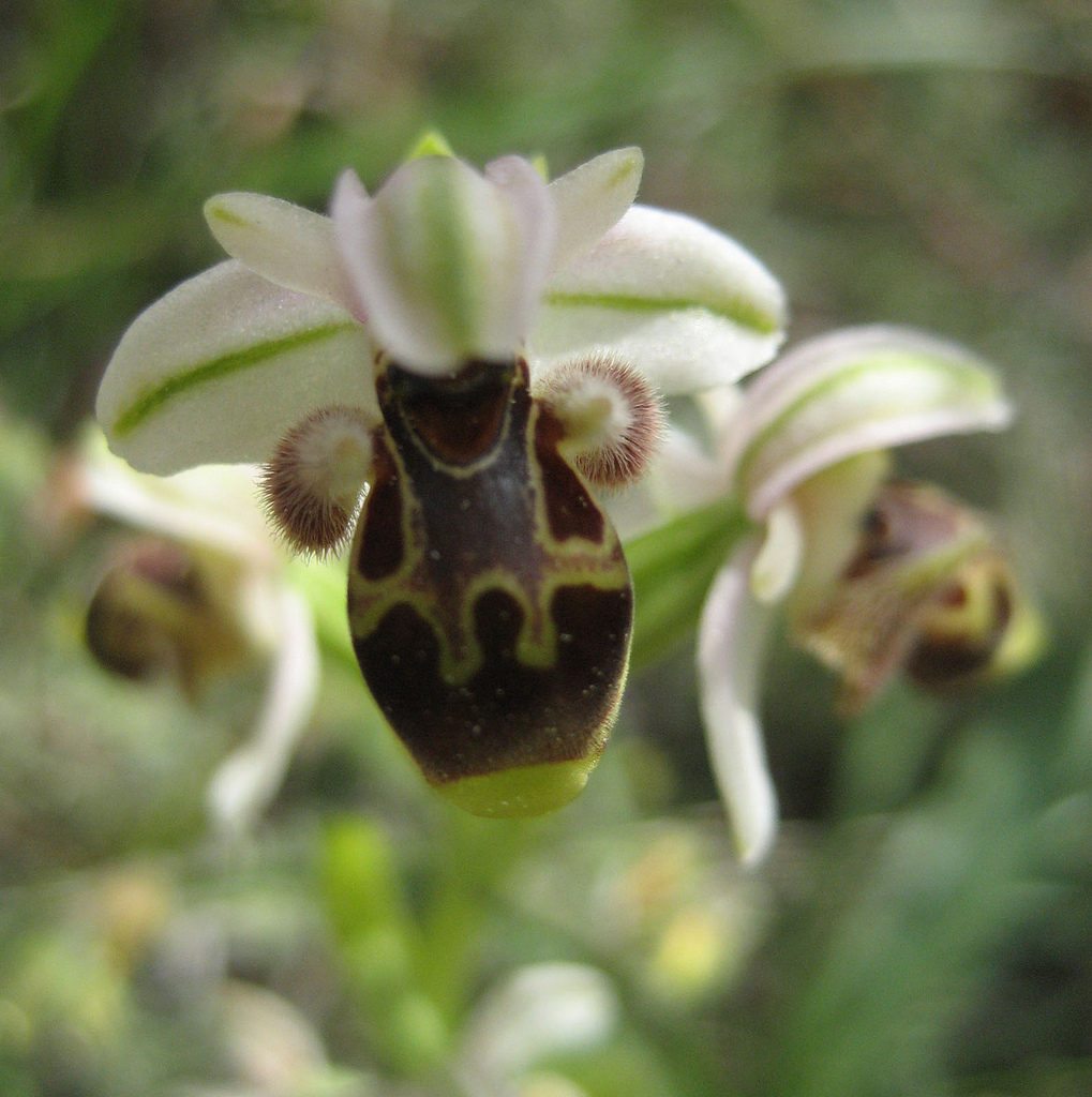 Ophrys umbilicata Çevlik, Hatay province, Turkey